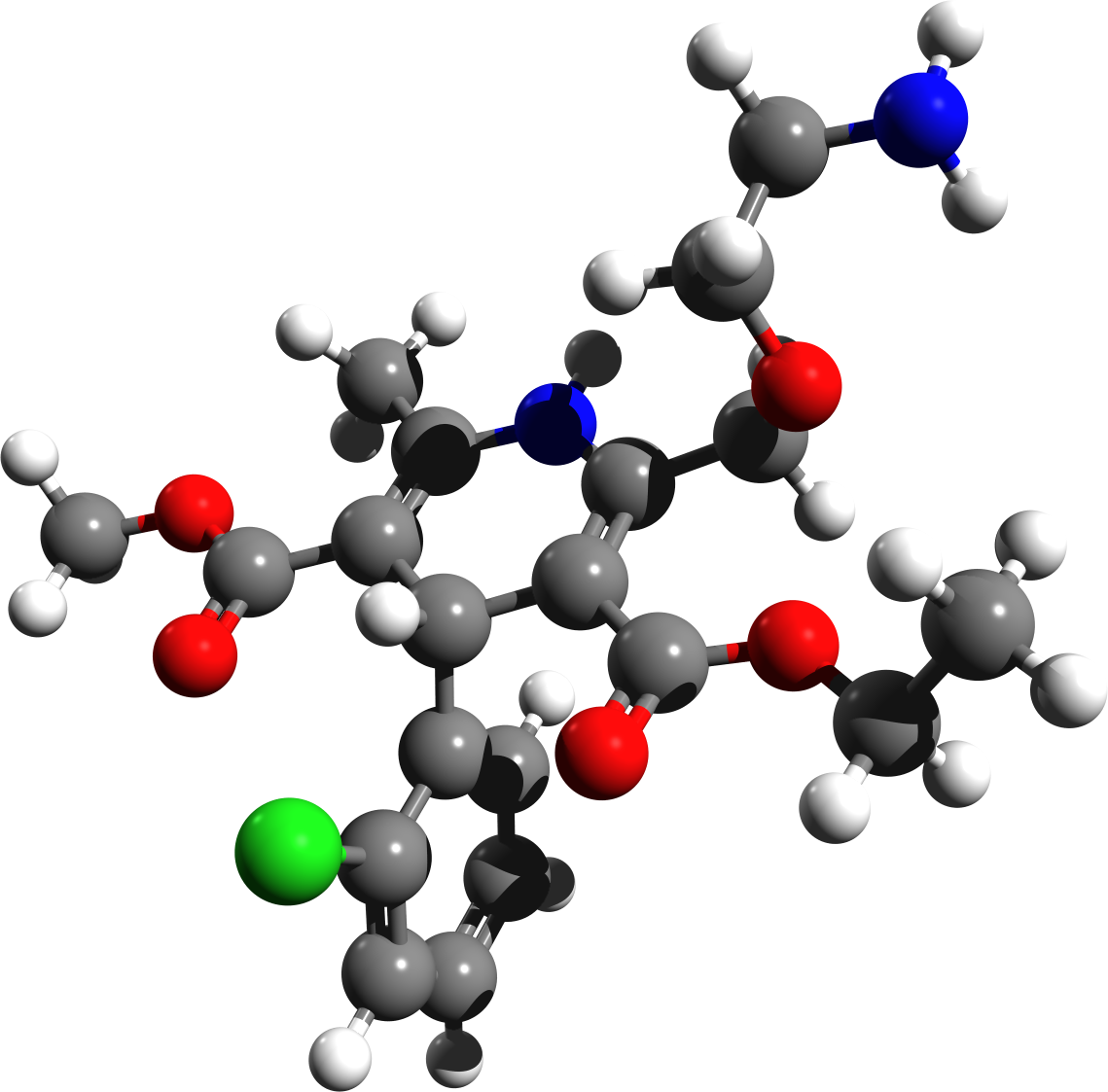 Amlodipine structure